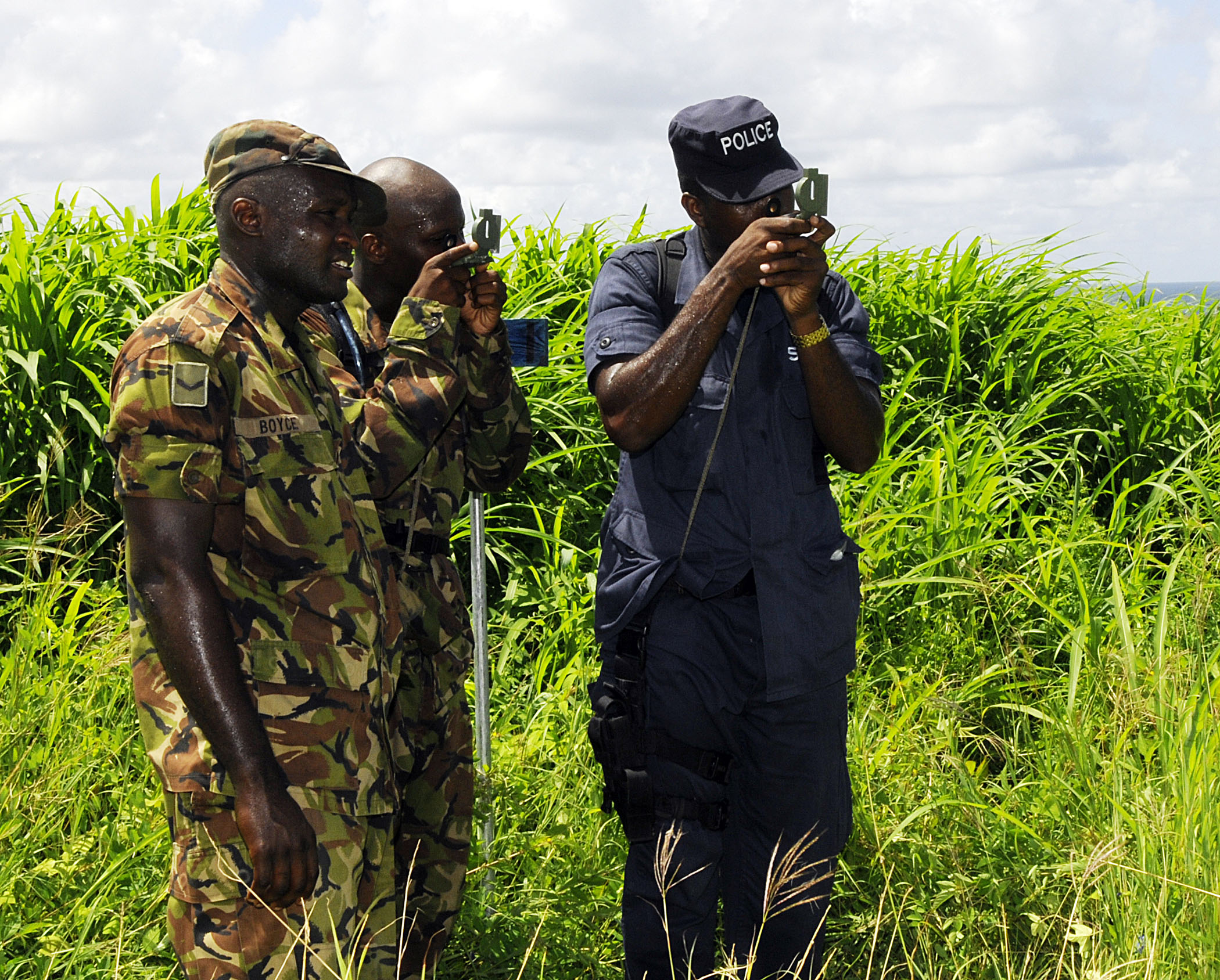 Members of the Barbados Defense Force search for pre-placed points during the land navigation portion of a subject matter expert exchange with U.S. Marines in Bridgetown, Barbados, Aug. 11, 2010. The Marines are from high speed vessel Swift (HSV-2) which is deployed for Southern Partnership Station (SPS) 2010. SPS is a deployment of specialty platforms to the U.S. Southern Command area of responsibility in the Caribbean and Central America with the goal of information sharing with navies, coast guards and civilian services. (DoD photo by Mass Communication Specialist 1st Class Kim Williams, U.S. Navy/Released)